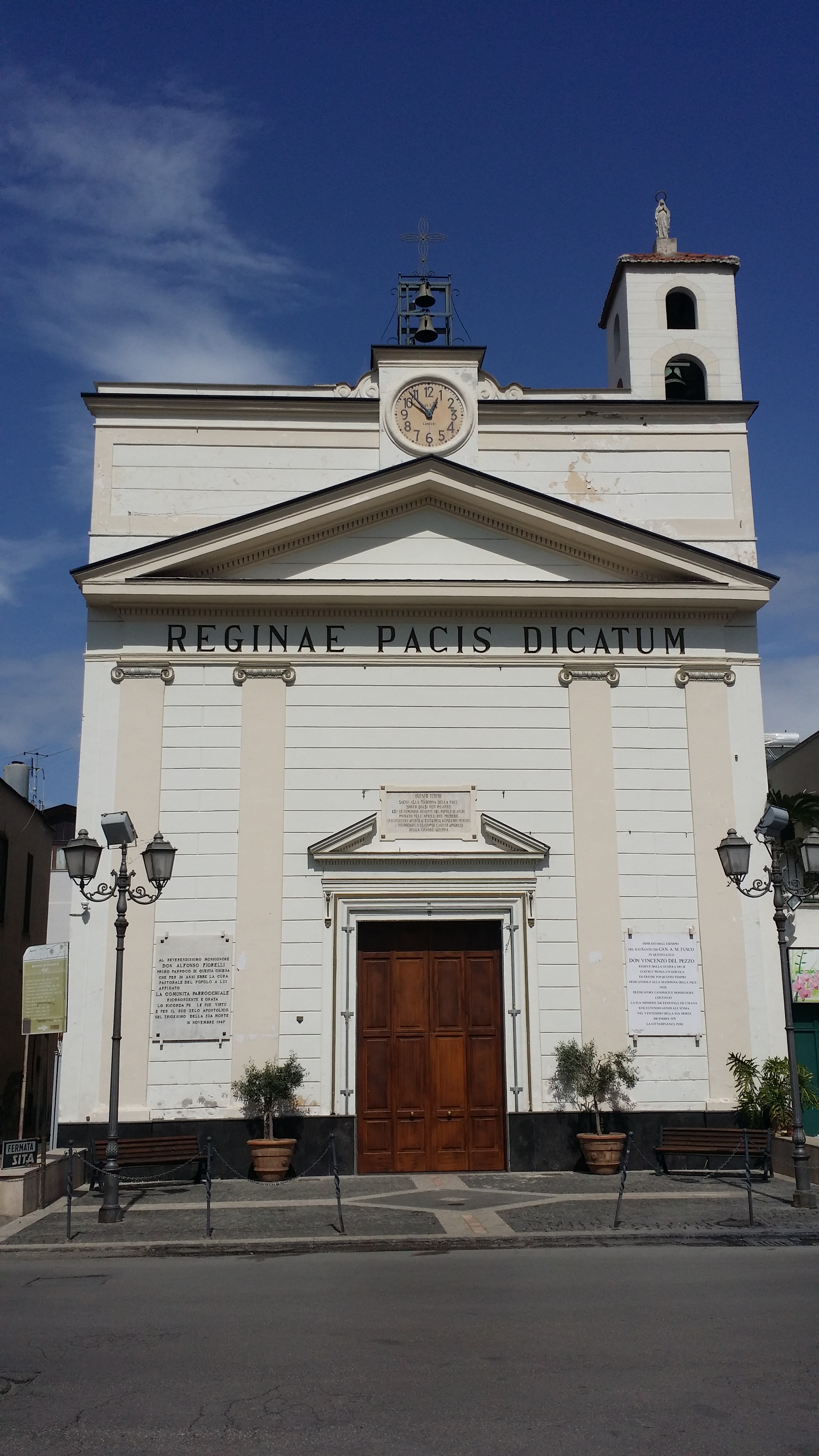 facade of the church of the Madonna della Pace-Angri (Sa)